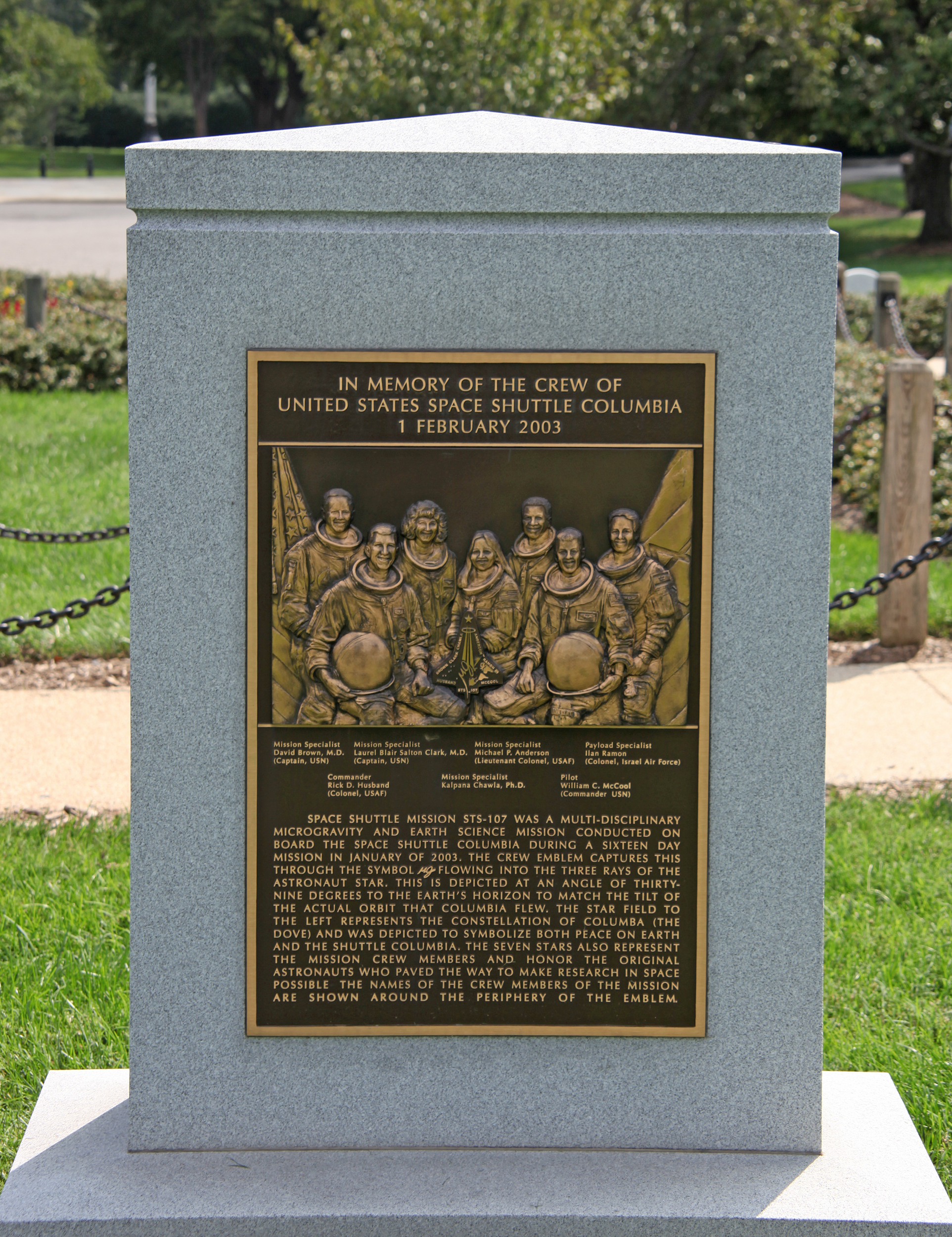 Rear face of the Space Shuttle Columbia Memorial in Section 46 of Arlington National Cemetery in Arlington, Virginia, in the United States. The Space Shuttle Columbia broke up and was destroyed on re-entry into the Earth's atmosphere on February 1, 2003. President George W. Bush signed legislation on April 16, 2003, establishing a memorial to the disaster. Artist Barbara Prey designed the bronze plaques which are affixed to the grey granite marker. The memorial was dedicated on February 2, 2002.